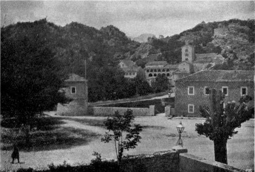 Original description: "The Monastery: Cettinje"